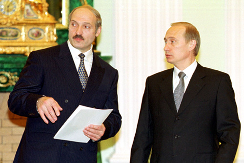 THE KREMLIN, MOSCOW. President Vladimir Putin and Belarusian President Alexander Lukashenko.